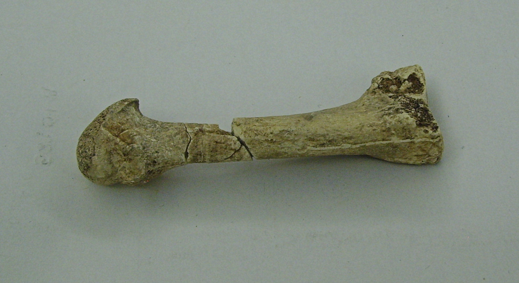 Metatarsal bone of the big toe of "Ardi" (cast)